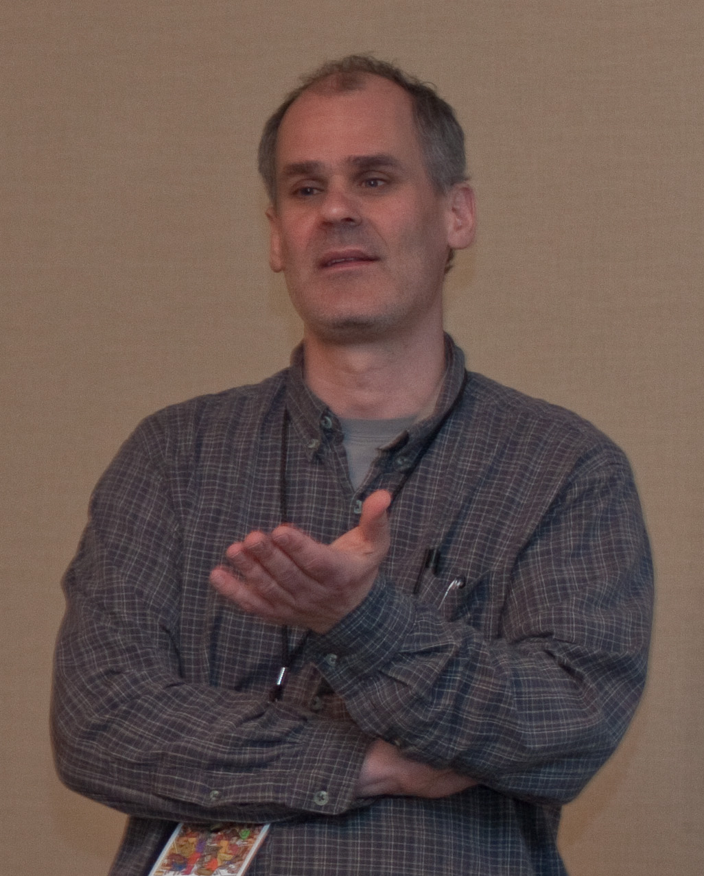 James Sturm conducts the Market Day panel at Stumptown Comics Fest 2010.